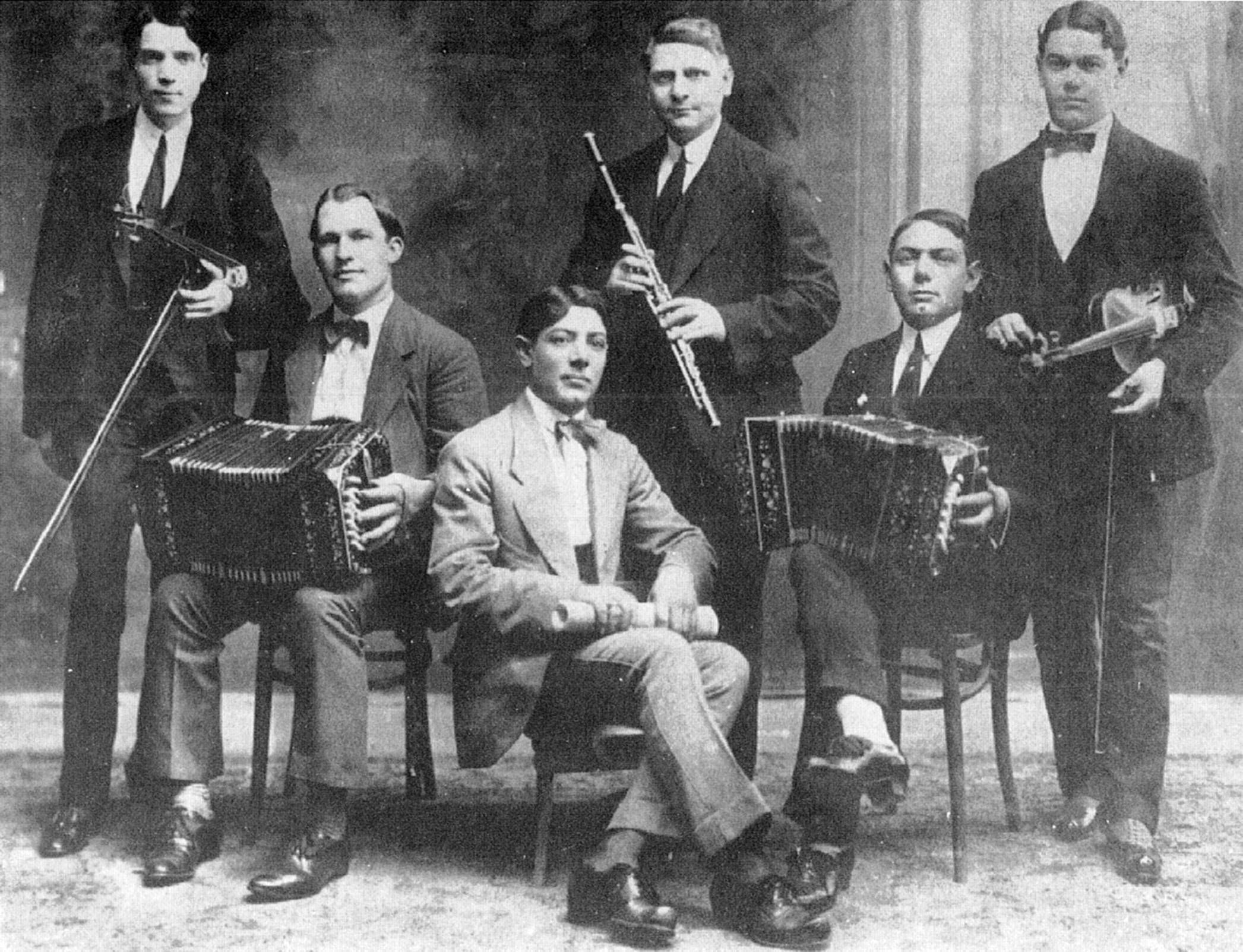 Orquesta Tipica of Bandoneonist Vicente Greco